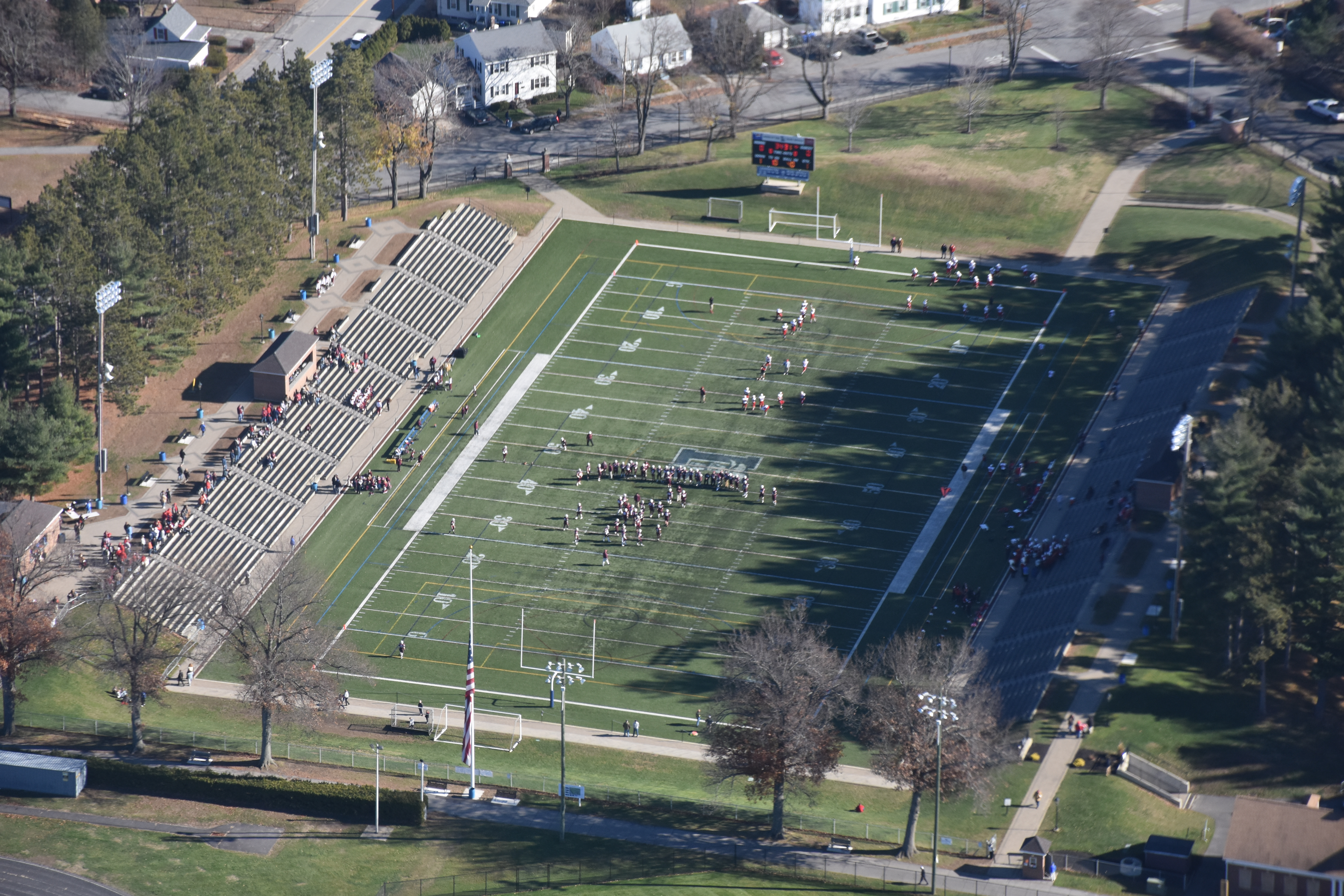 Aerial view of football stadium at Leominster Senior High School in Leominster, Massachusetts.